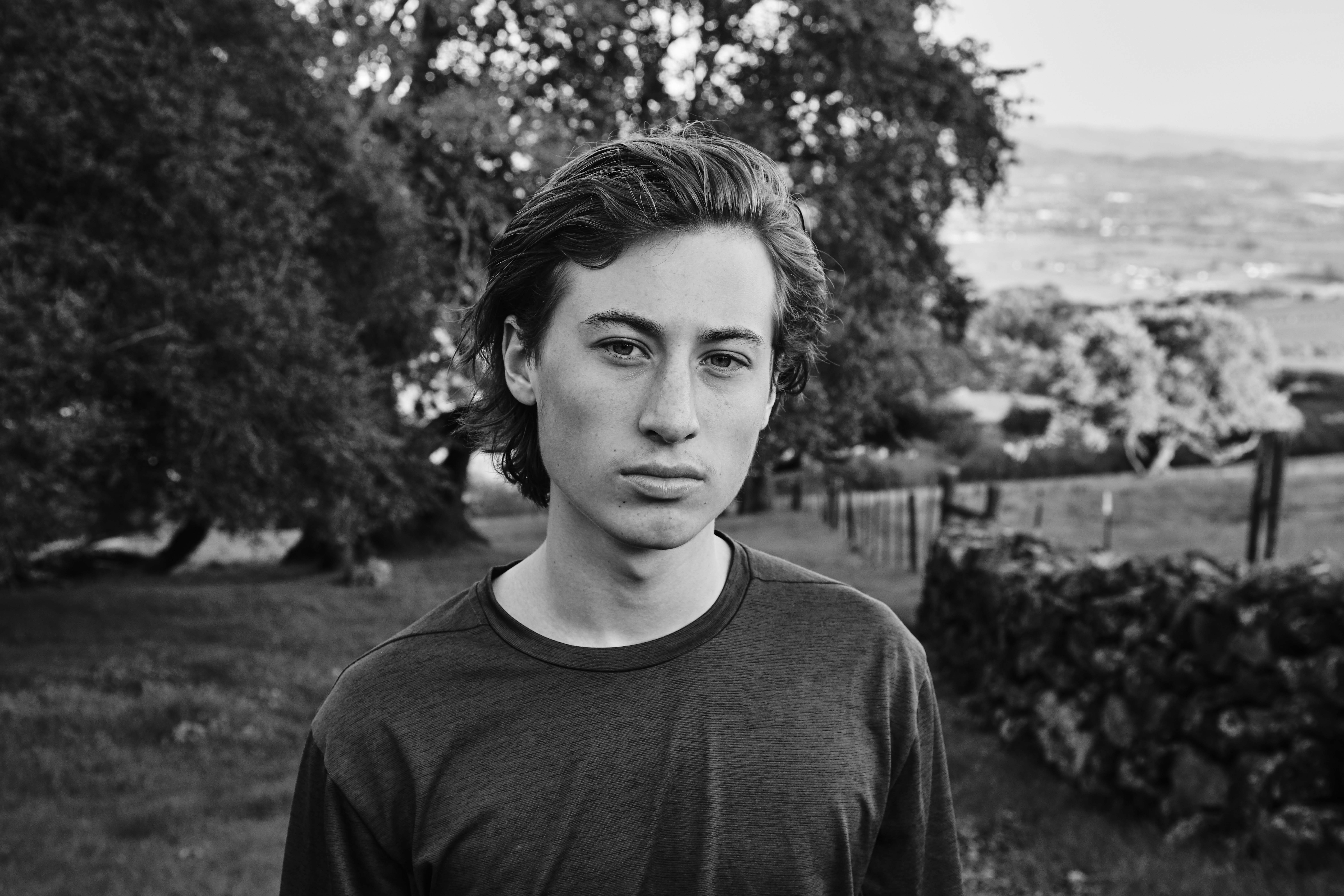 Official Headshot of Kelly Needleman